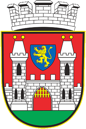 Coat of arms of municipality Kosmonosy, Mladá Boleslav District, Czechia.